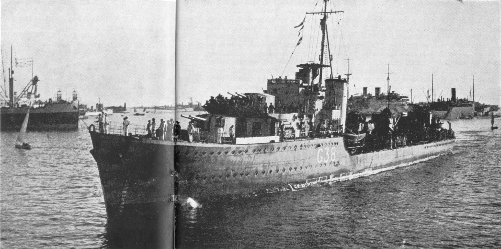 Destroyer HMAS Nizam (G38) of the Royal Australian Navy crowded with troops withdrawn from Crete arrives back in Alexandria, Egypt.